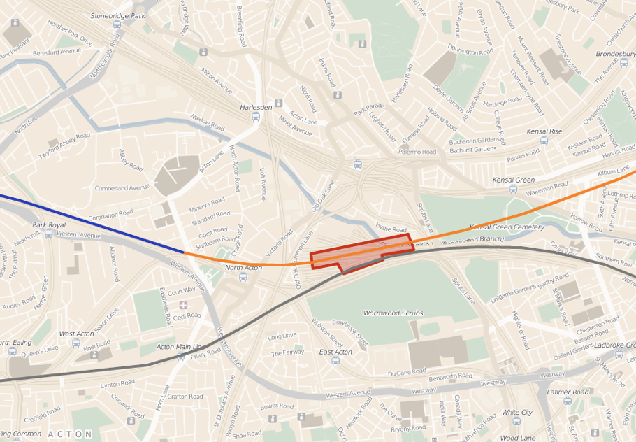 Proposed Crossrail interchange from High Speed 2